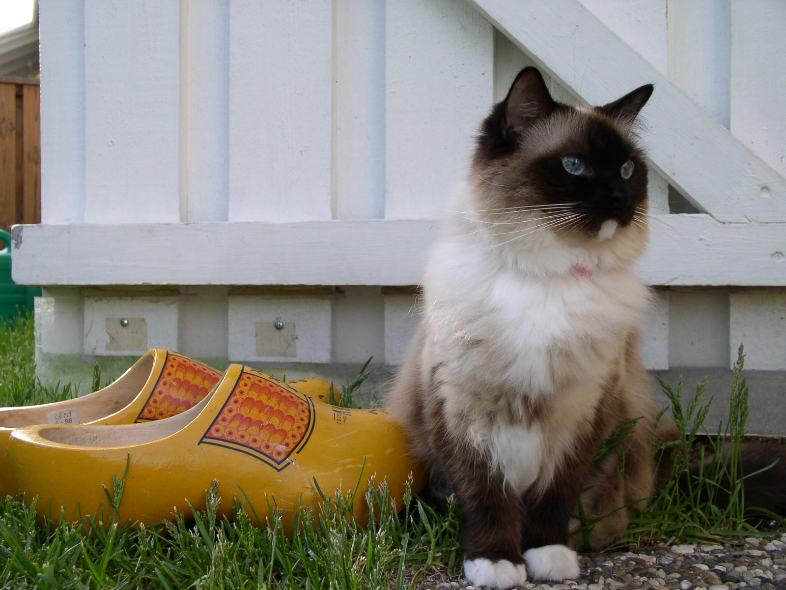 Ragdoll, seal mitted